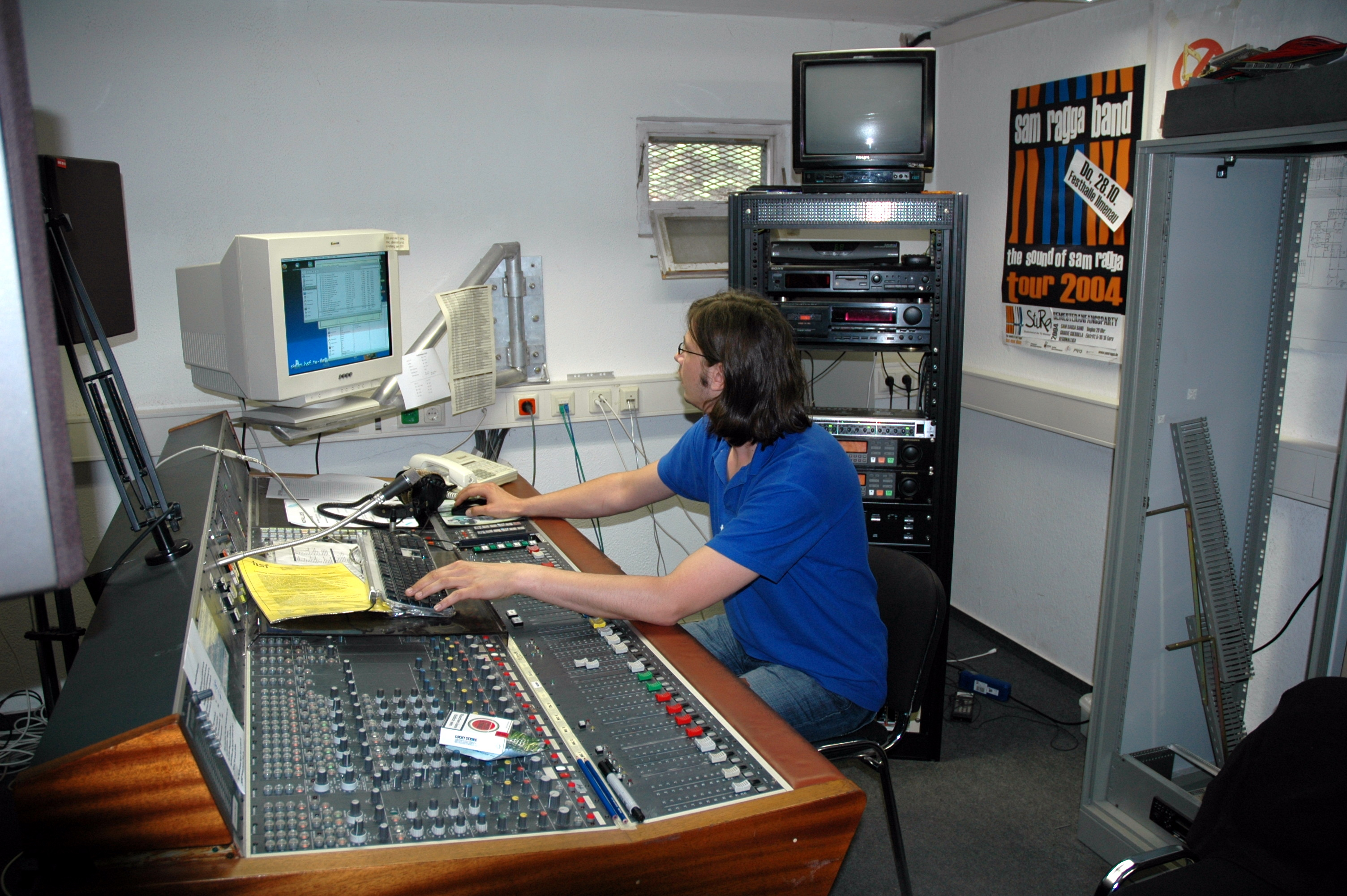 broadcasting studio of radio hsf, Ilmenau, Germany